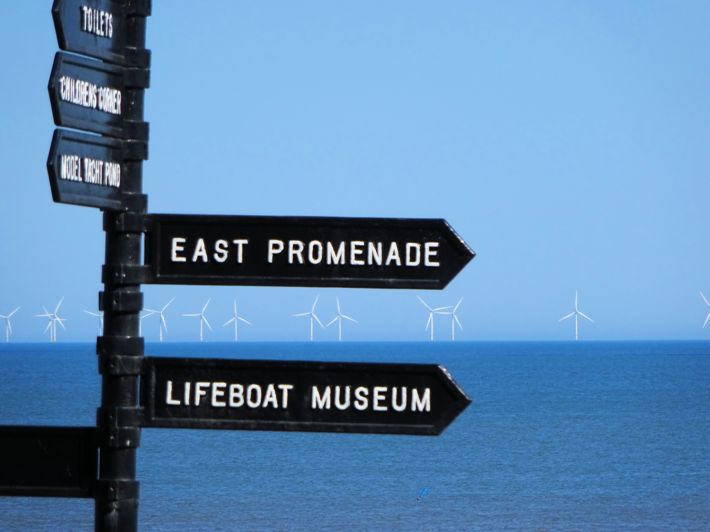 Sheringham Shoal Offshore windfarm from Sheringham west cliff